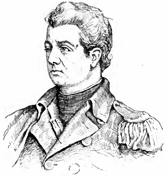 Likeness of American revolutionary soldier Ethan Allen. Appletons' qualifies this by saying: "It is believed that no portrait of Allen was ever made. The one given is copied for this work by our artist, from the ideal heroic statue at Montpelier, Vt."